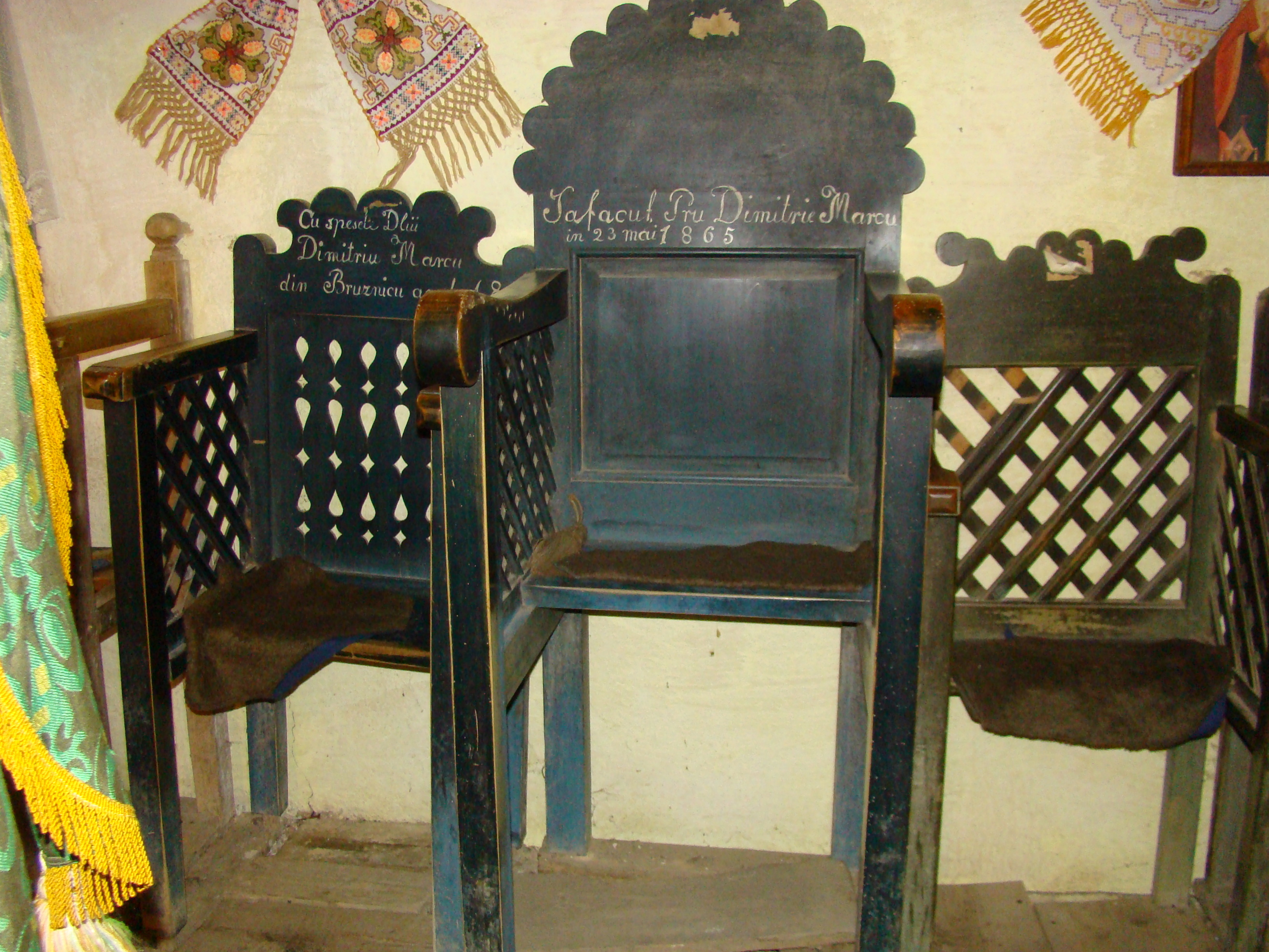 The old wooden church in Bruznic, Arad county, Romania